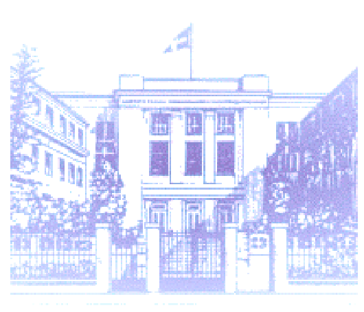 historical photo of aueb